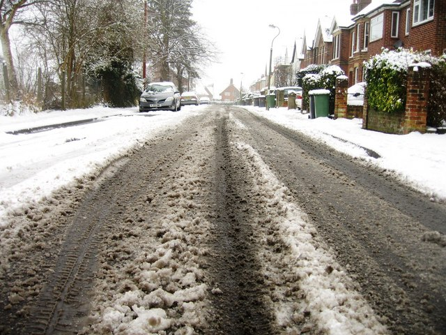 Slush! Burgess Road, just as the melt starts - or maybe not.